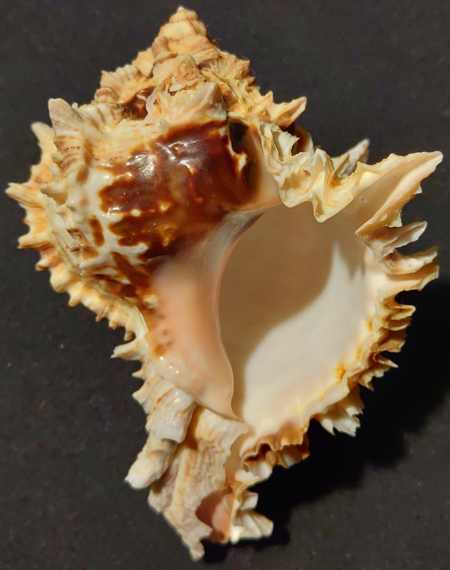 Hexaplex Regius Front